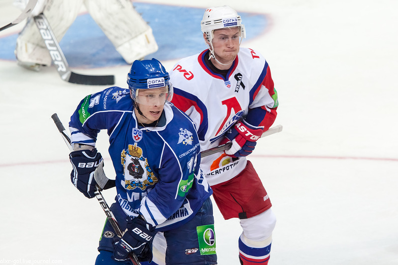 Amur Khabarovsk forward Juha-Pekka Hytönen(in blue) and Lokomotiv Yaroslavl forward Yuri Petrov (in white, №63) during KHL game on September 8, 2012.